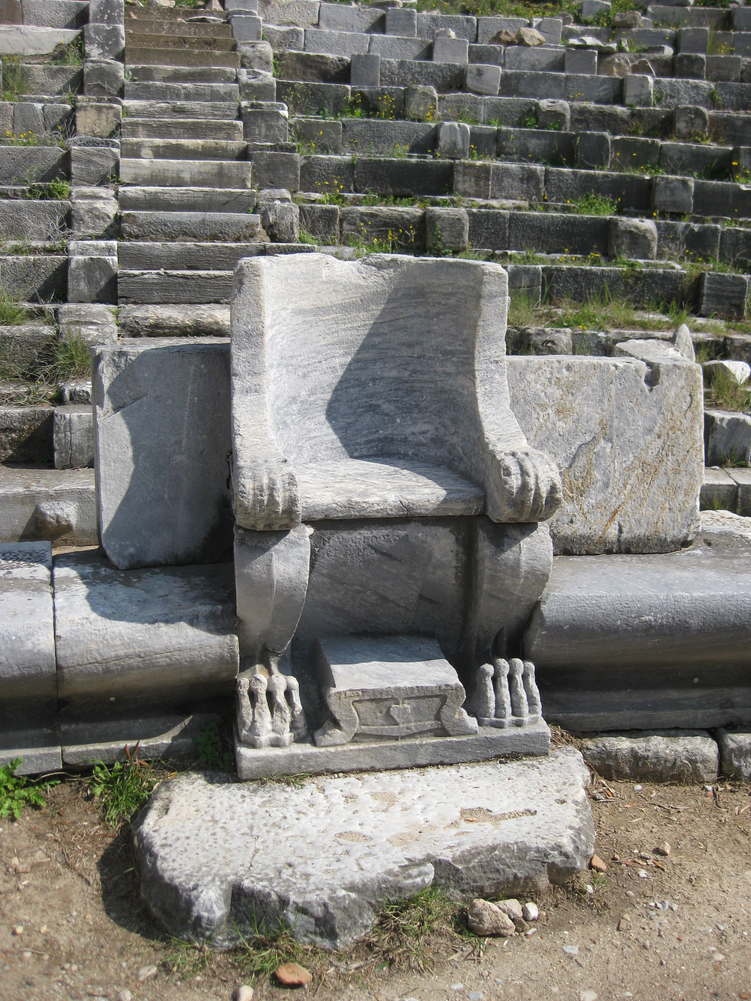 Antique Theatre Priene, Marble Chair